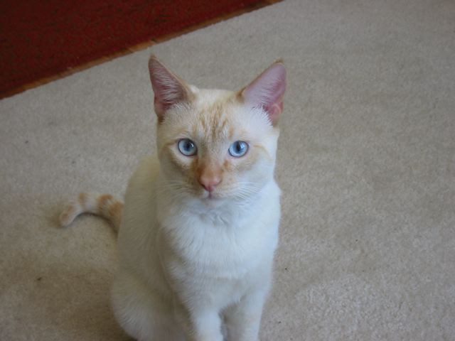 Colorpoint Shorthair. Blue eyes, white cat.